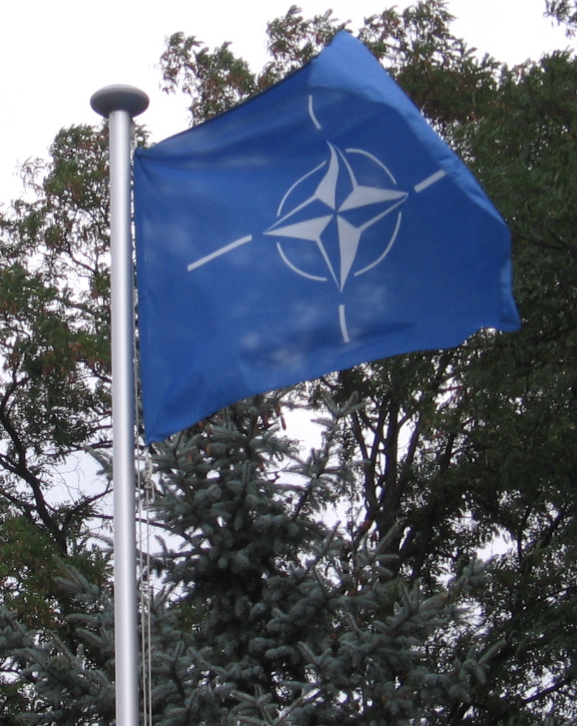 The NATO Flag. Cropped version of Image:FlagaNATO-PL.jpg